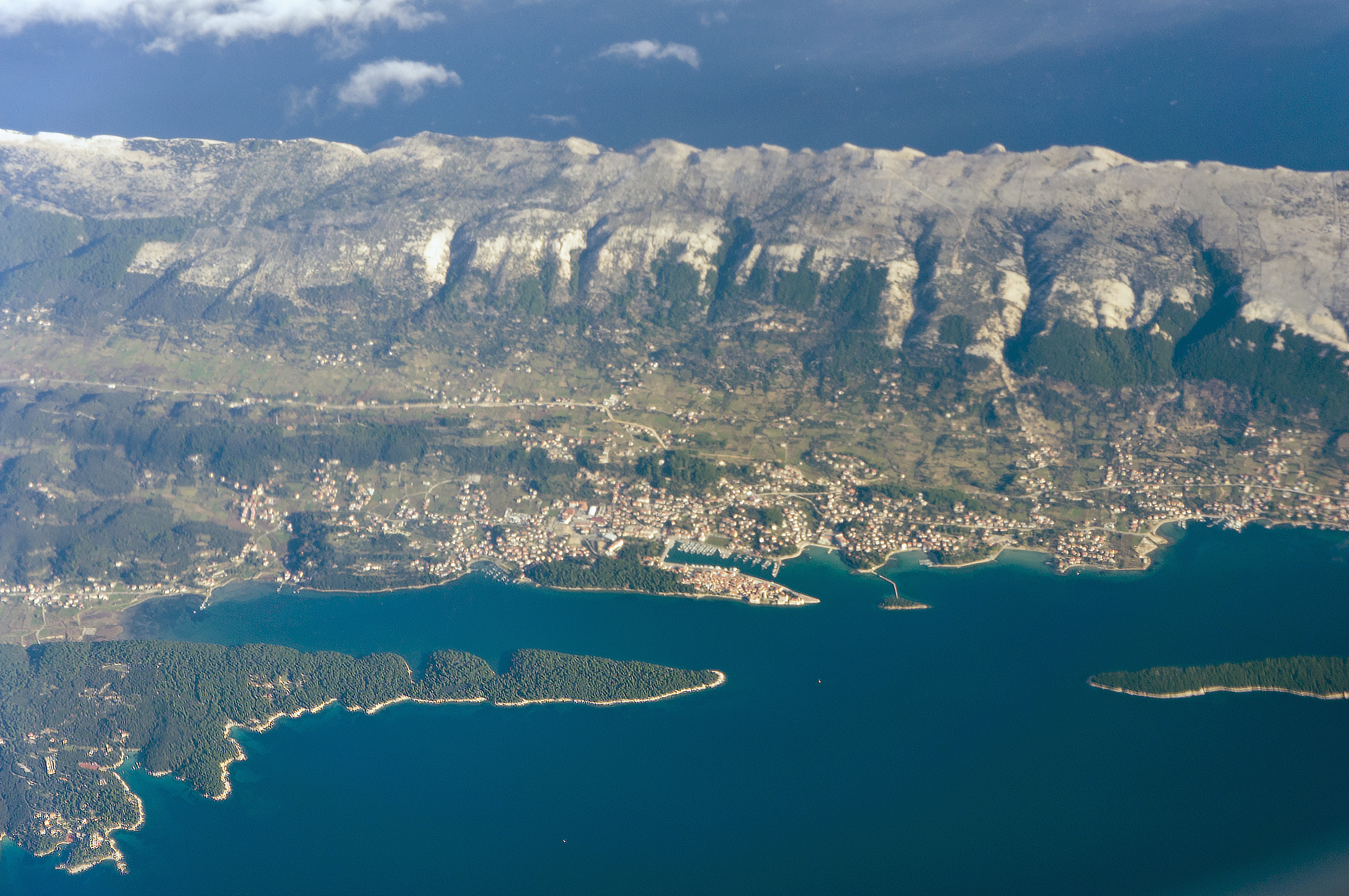 Croatia, aerial views along the coast of Croatia